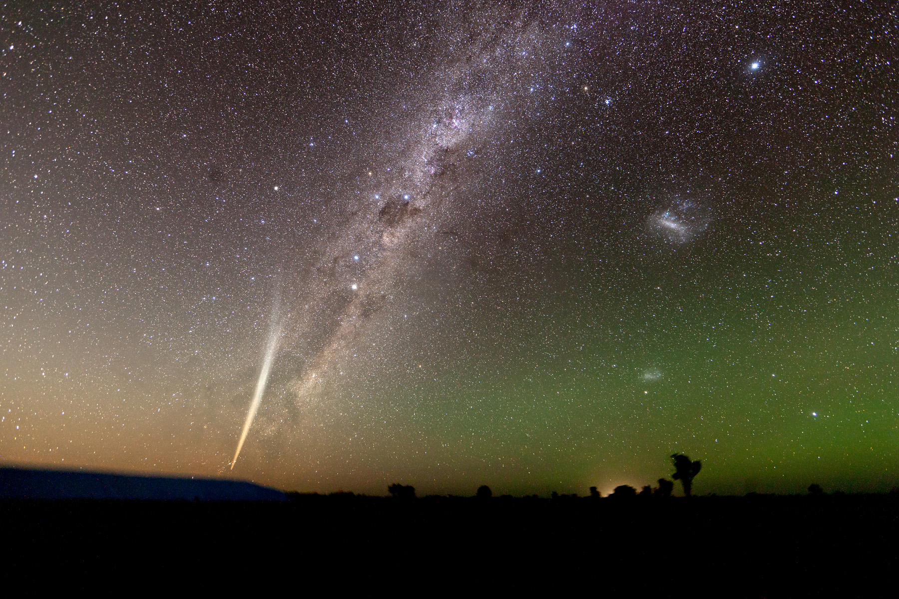 Wide field shot of C/2011 W3 (Lovejoy) and the Milky Way taken near Roma, Queensland, Australia. The yellow light on the left is Zodiacal light, and the green region on the right is due to airglow. Image was created using a stack of 3 × 300 second sub-exposures taken with a Canon EOS 5D Mark II and 14mm f/2.8L II lens at f/4 ISO 800 mounted on an Astrotrac equatorial mount, stacked in Adobe Photoshop CS5.